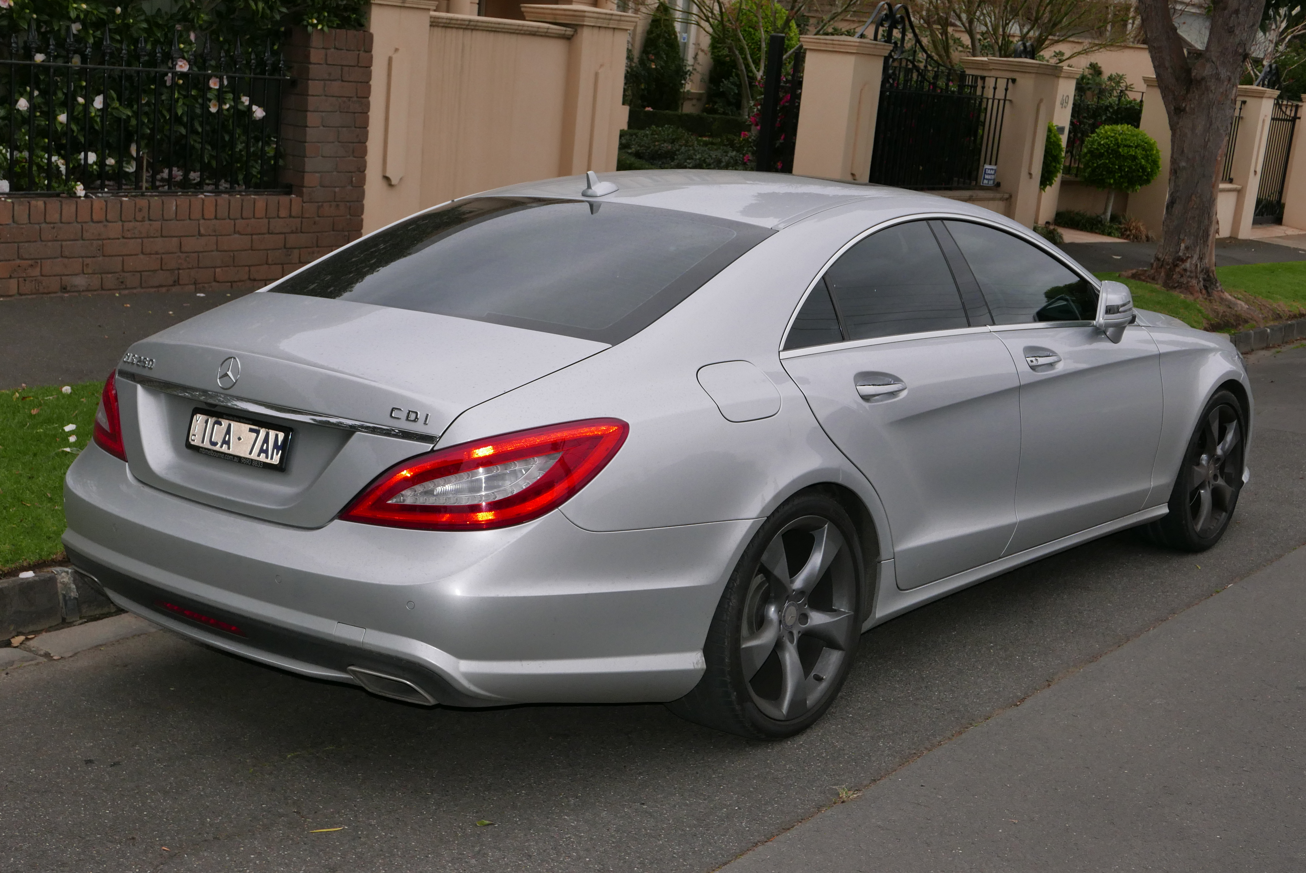 2014 Mercedes-Benz CLS 250 CDI (C 218) Avantgarde 10 Edition sedan. Photographed in Brighton, Victoria, Australia. Vehicle registration enquiry resultsJurisdictionVictoriaRegistration1CA7AMChassis codeWDD2183032A117125Engine code65192432051982Compliance date2014-04Year of manufacture2014